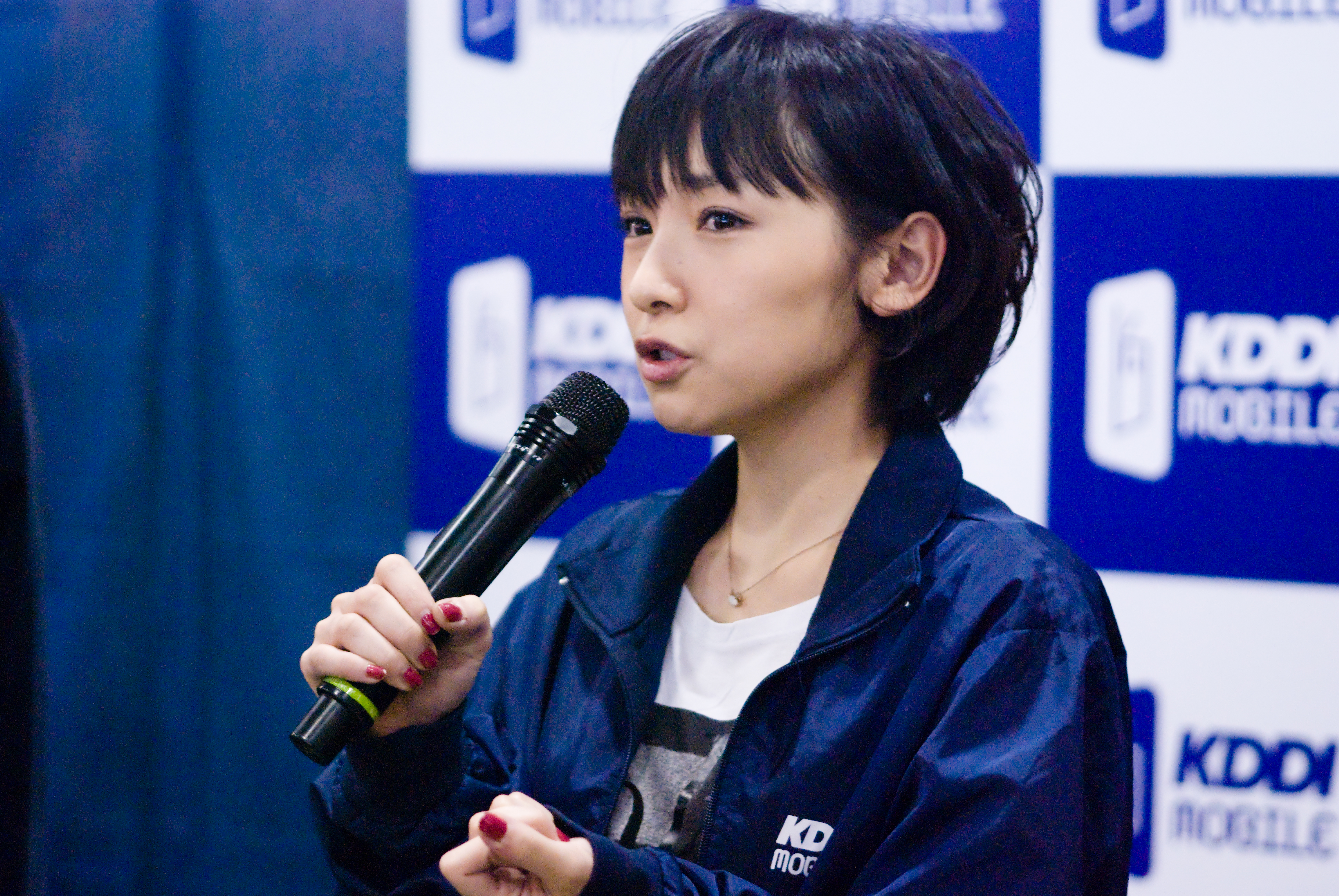 Ai Kago at a KDDI press conference held at the Mitsuwa Marketplace in Edgewater, NJ.